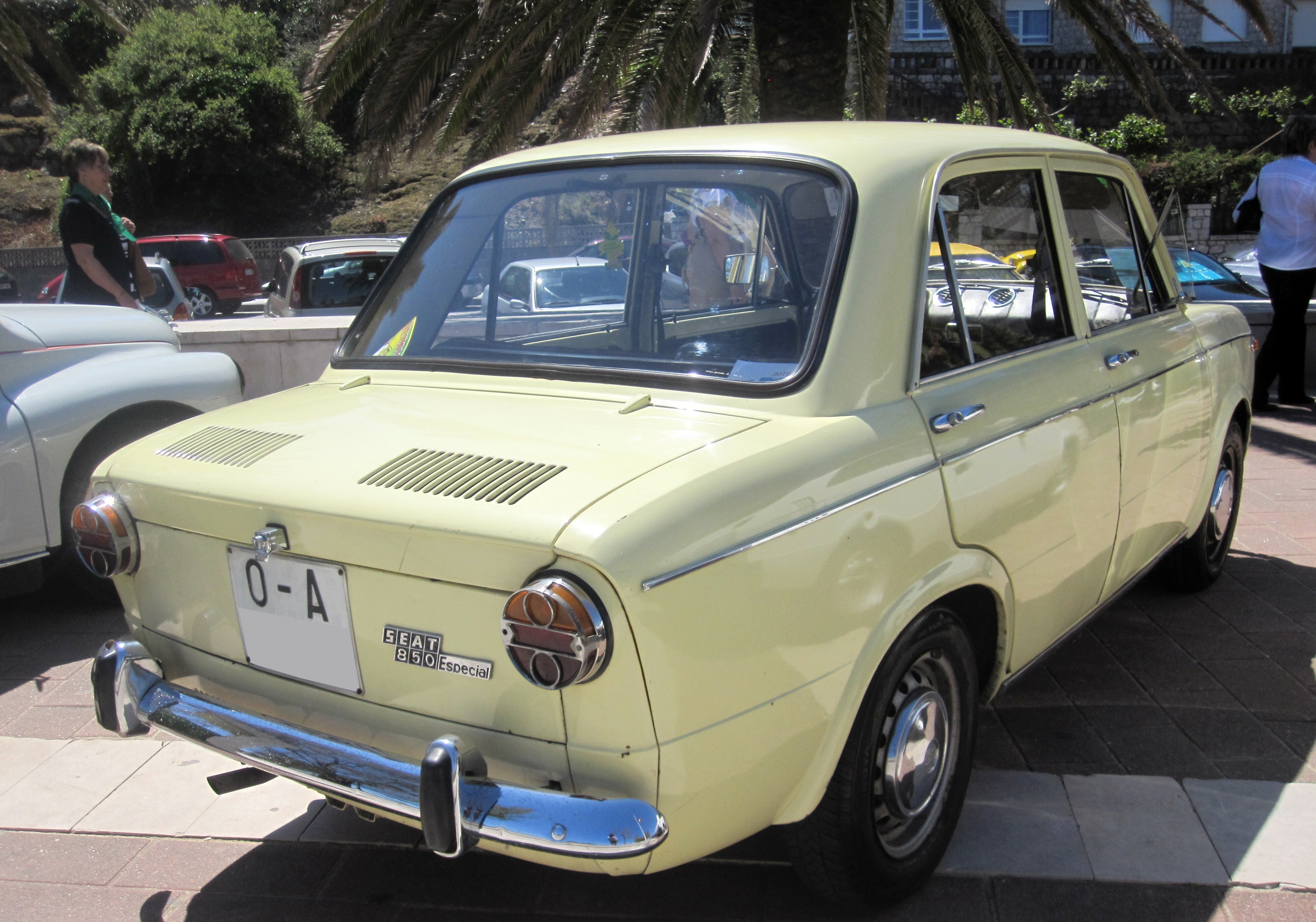 1971 plates from Oviedo (Asturias) but seen in Suances (Cantabria).